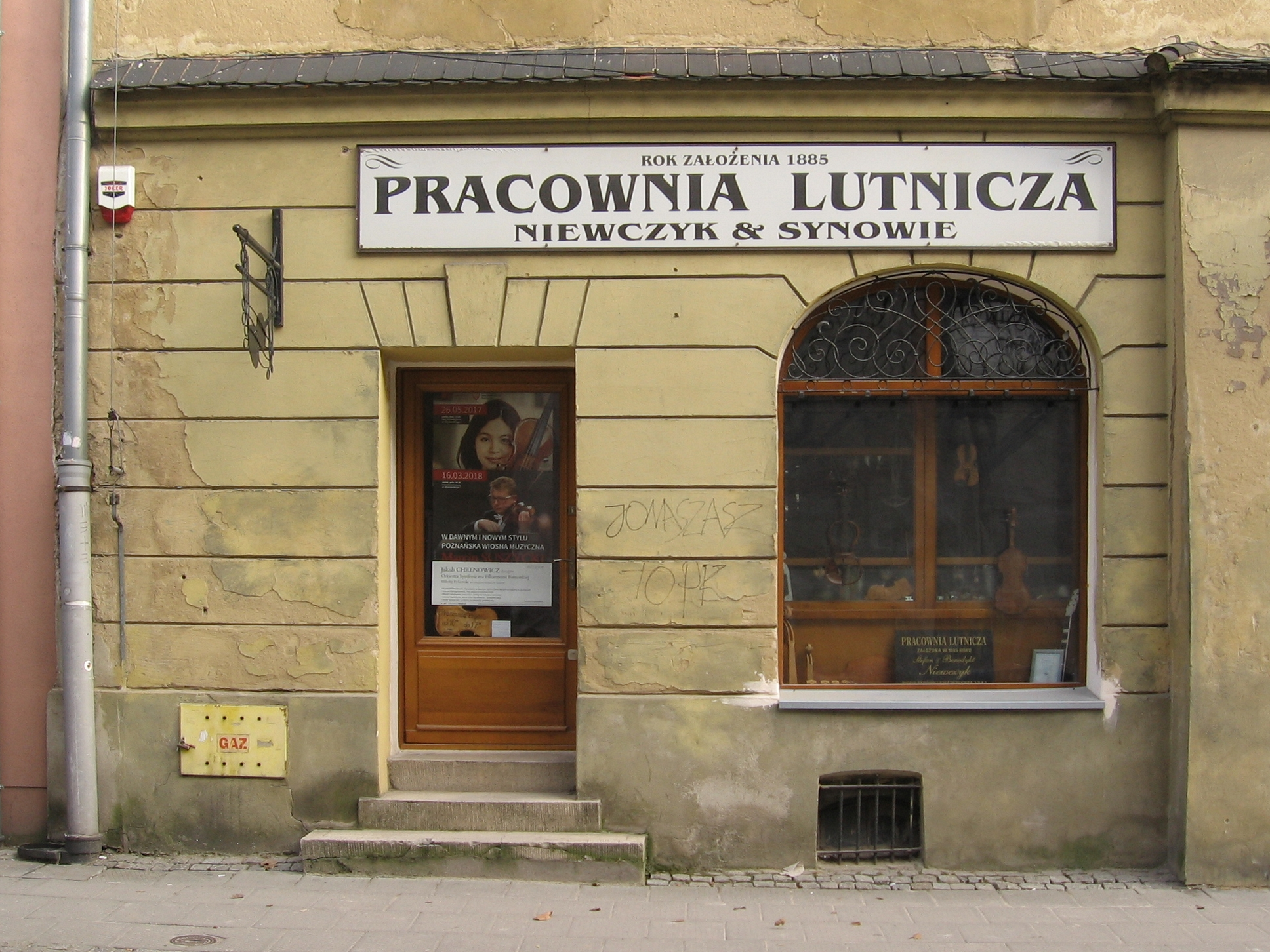 The Niewczyk family luthier workshop in Poznań, Woźna 6 street, Poland.